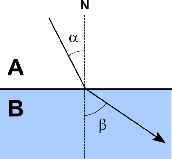 Schematic presentation of the Snell's law a.k.a. Law of Snellius